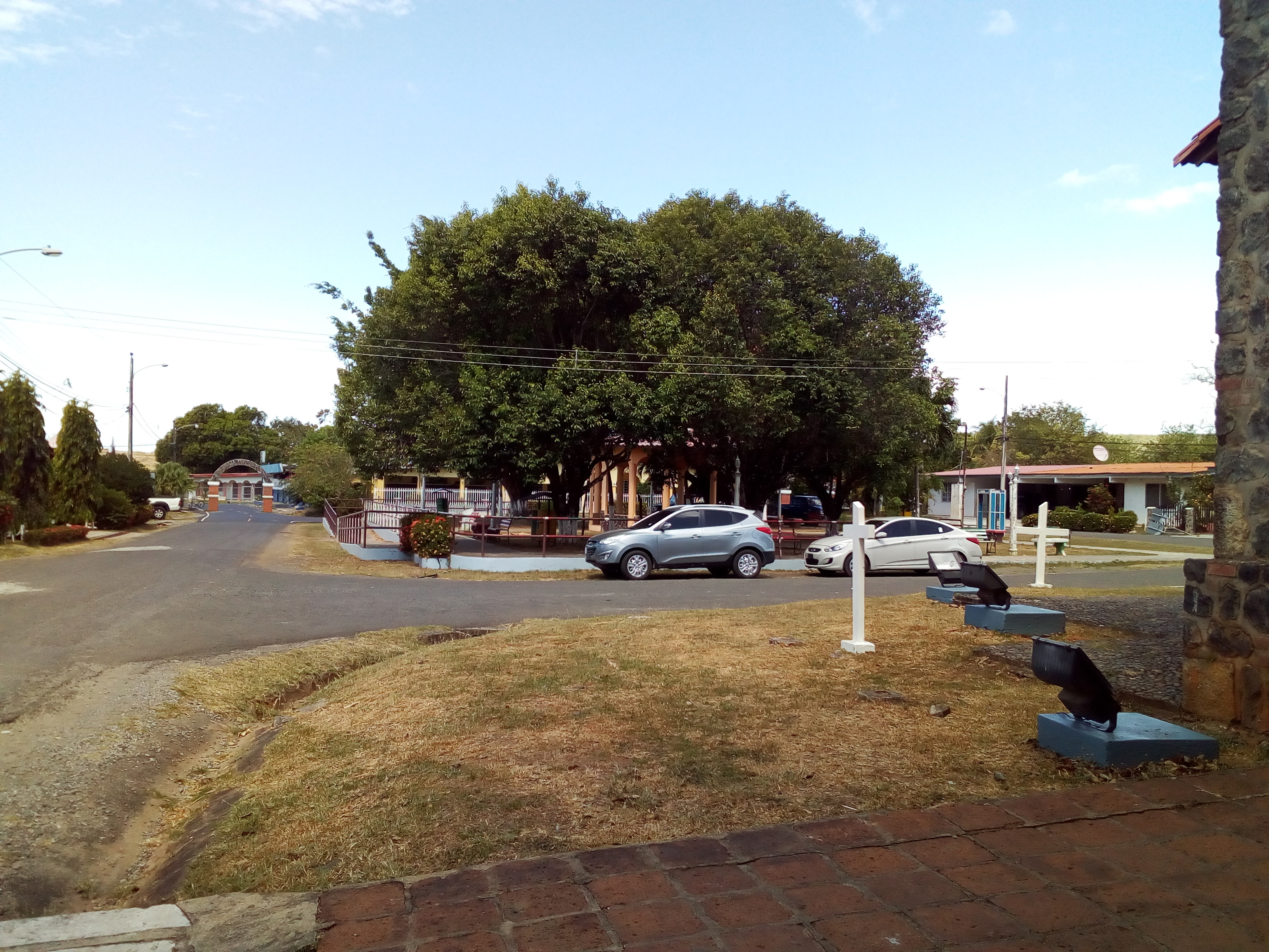 Park of the town of San Francisco de la Montaña, Province of Veraguas, Panama.